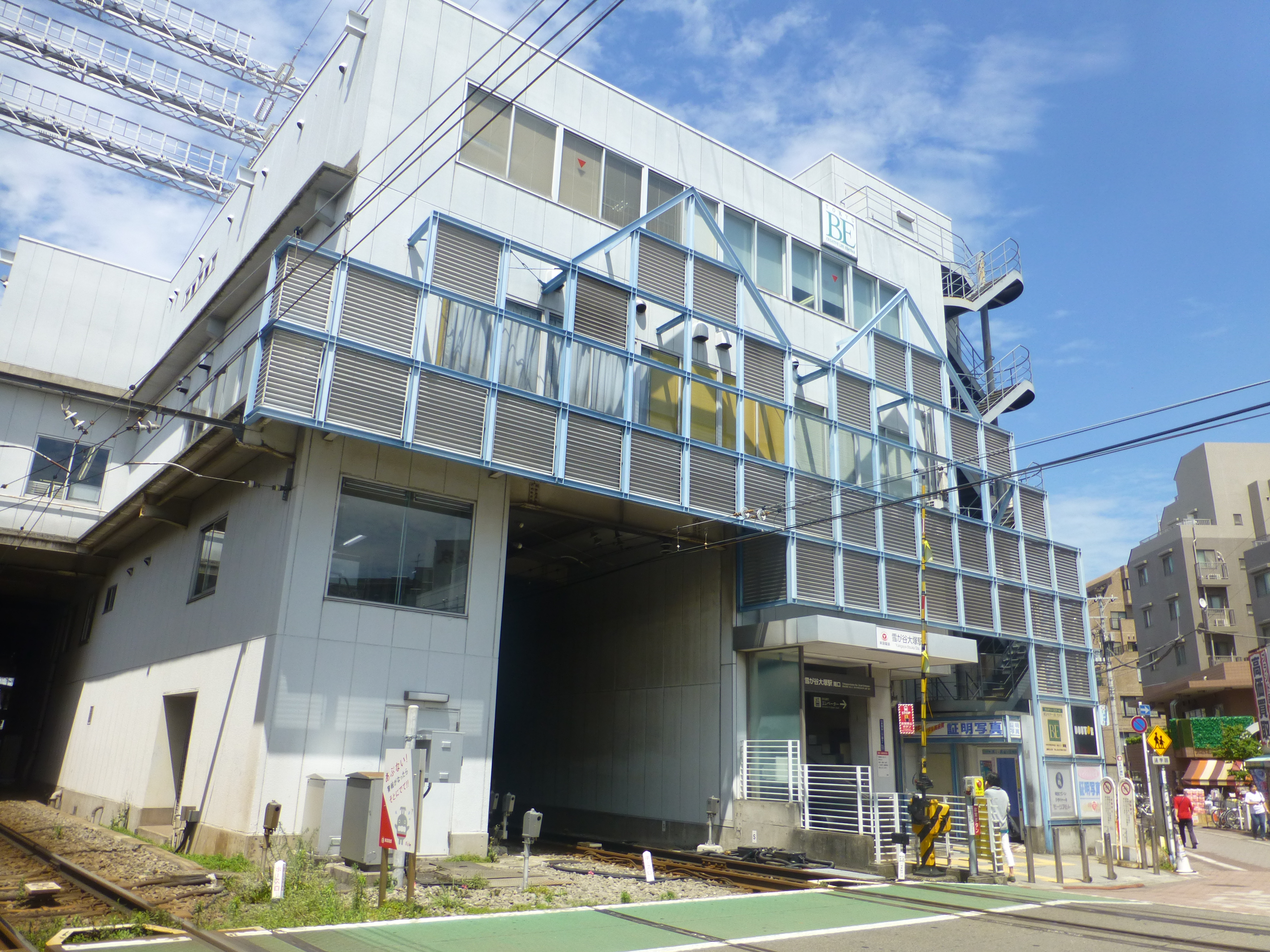 Yukigaya-Ōtsuka Station south exit (雪が谷大塚駅の南口)